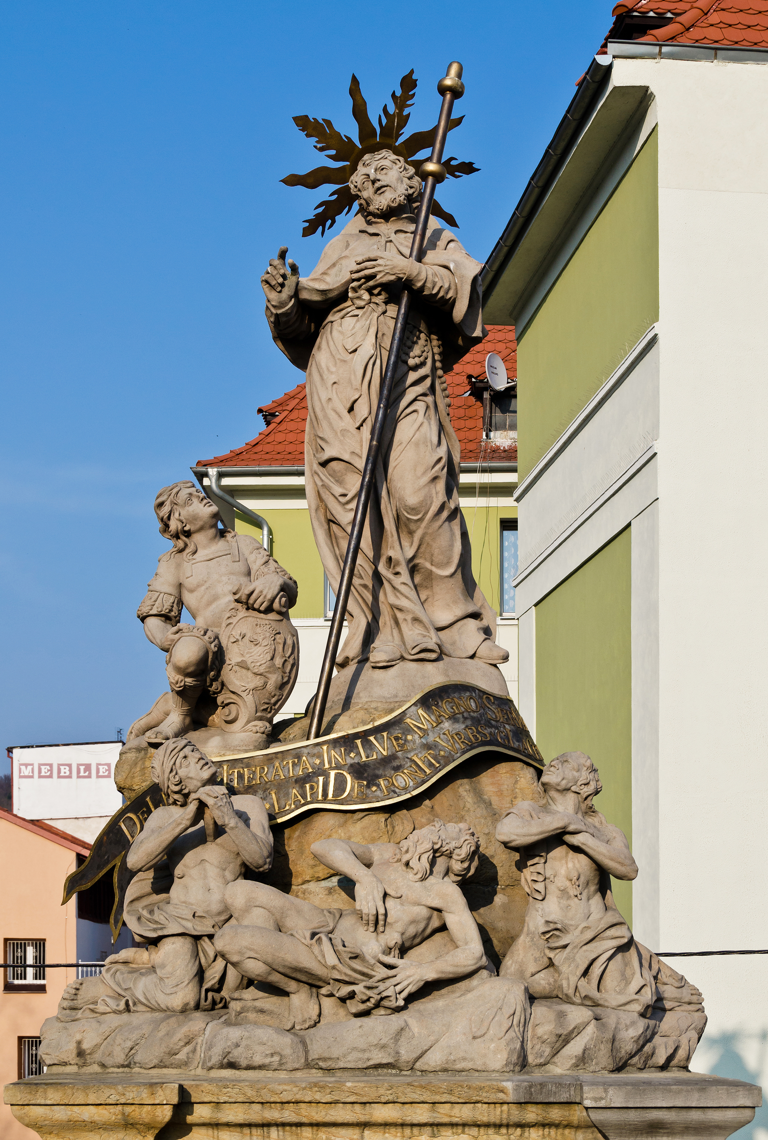 Francis Xavier statue on the Gothic Bridge in Kłodzko